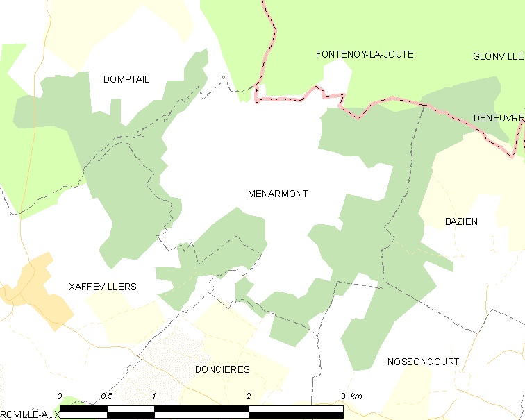 Map of French municipality Ménarmont